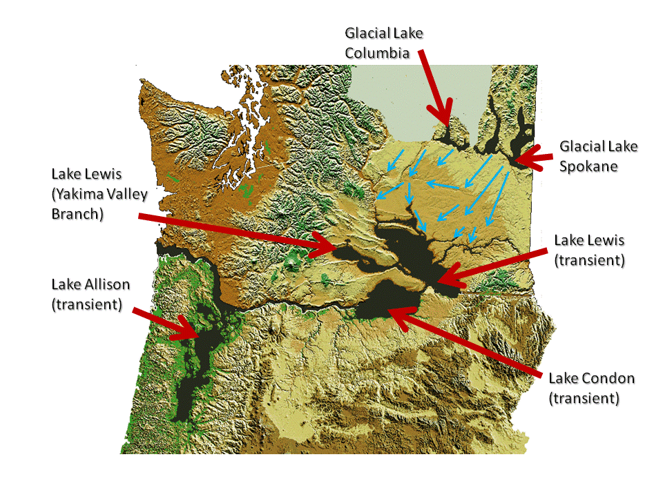 Shows proglacial lakes in the U.S.A. Pacific Northwest states of Washingon and Oregon. Addition of work identifying locations of lakes based upon several internet sources which will be referenced in article in which figures are used.